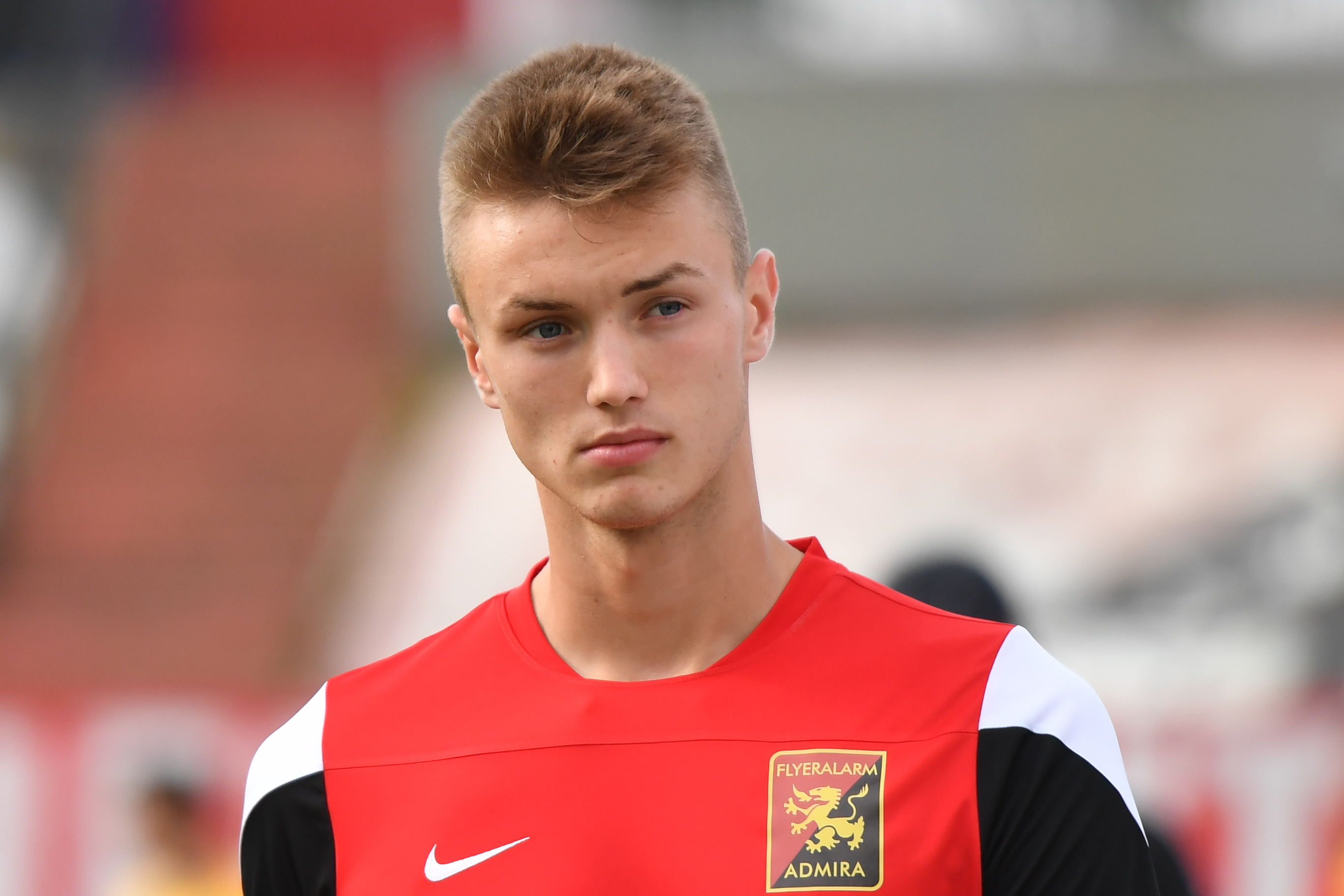 28/6/2017, Maria Enzersdorf, Austria, sports, soccer, Tipico Fussball Bundesliga - preparation match FC Flyeralarm Admira vs Gyirmot FC Gyoer. Image shows Sasa Kalajdzic (ADM).